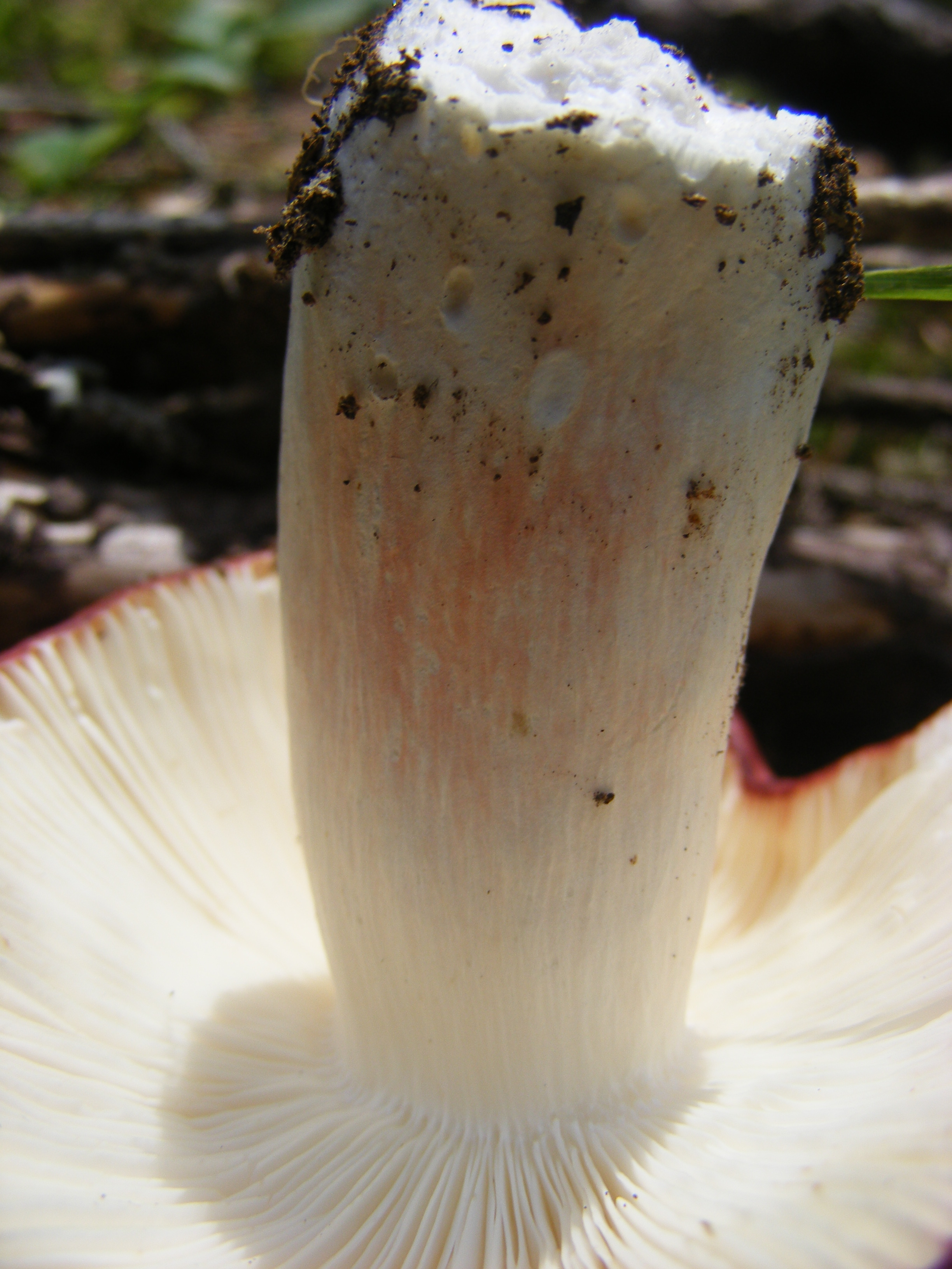 Russula rosea